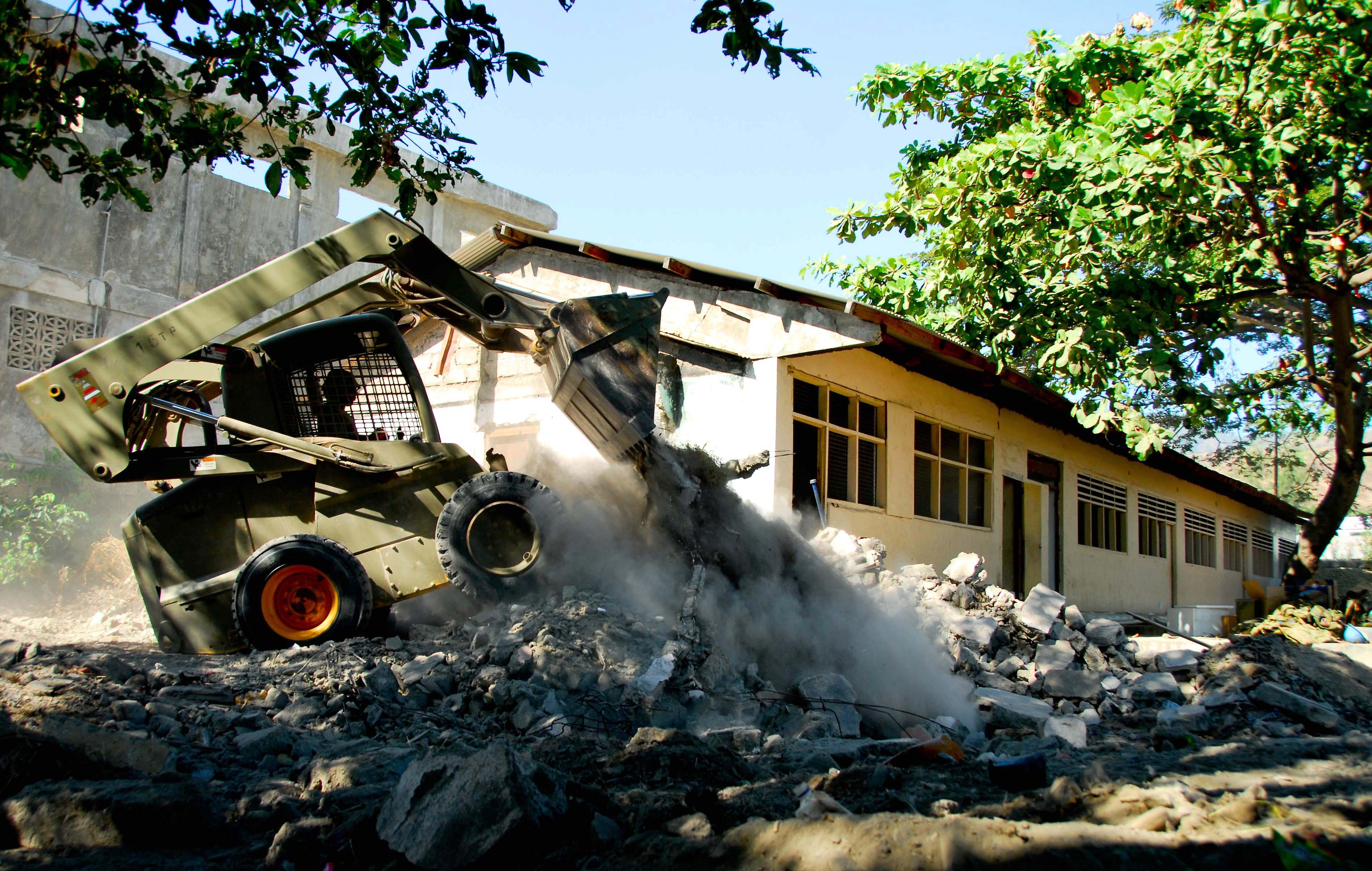 DILI, East Timor (July 14, 2008) Sapper Jamie Livingston, assigned to the Australian Army 3rd Combat Engineer Regiment, operates a Bobcat at a Pacific Partnership engineering civic action program at Bario Pite Elementary School. Pacific Partnership is a four-month deployment by the Military Sealift Command hospital ship USNS Mercy (T-AH-19) to assist the governments of participating nations with medical, dental and construction civic assistance programs. U.S. Navy photo by Mass Communication Specialist 3rd Class Joshua Valcarcel (Released)